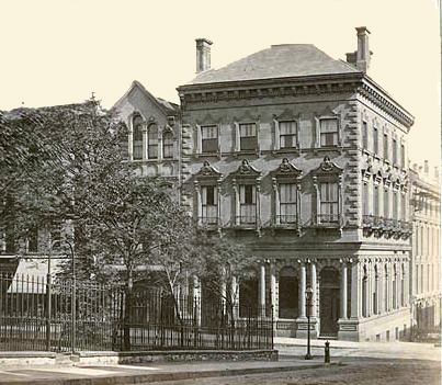 Union Bank building. Notman Studio, Halifax, Nova Scotia, Collection of Nova Scotia Archives and Records Management.